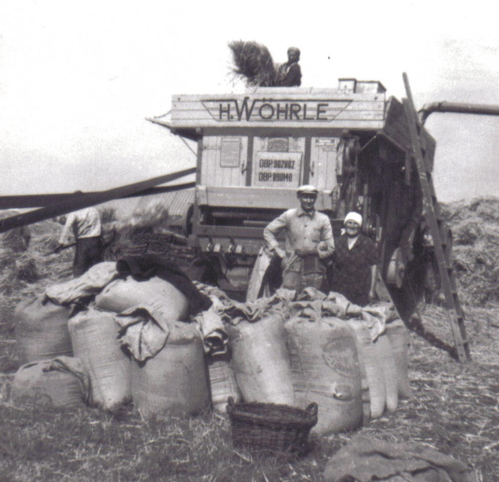 views of Alsenborn in Rhineland-Palatinate, Germany